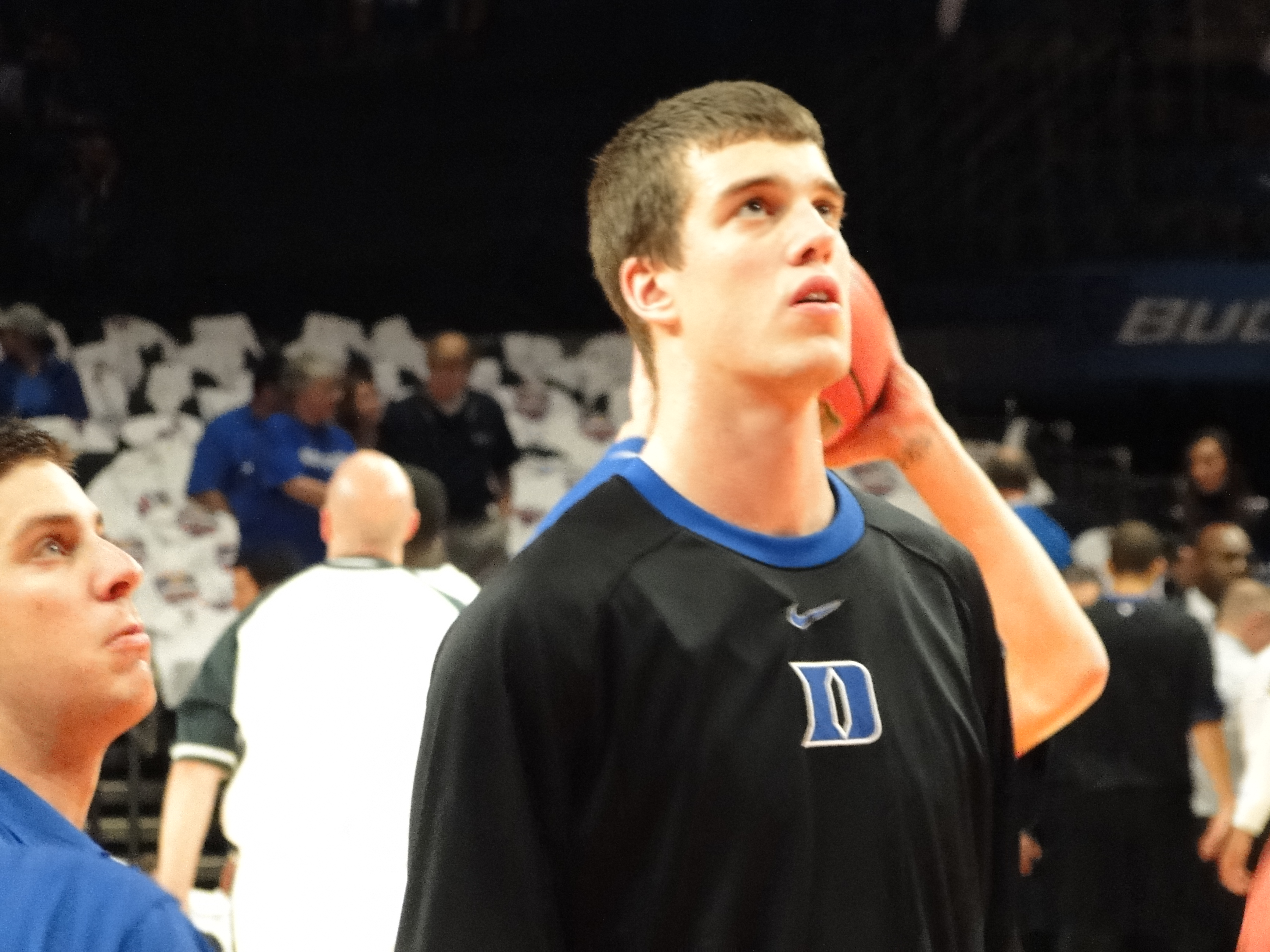 Marshall Plumlee of Duke.